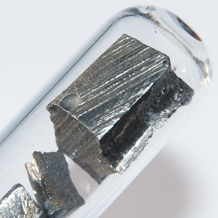 Neodymium is one of the more abundant lanthanoids and has many different applications. It is often used as colorant for glass and ceramic, because its compounds, depending on concentration, can make a beautiful blue, green or red. Another important application is as active medium in Nd:YAG lasers. Nd2Fe14B, neodymium-iron-boron, known as neodymium magnet, is the strongest permanent magnet.